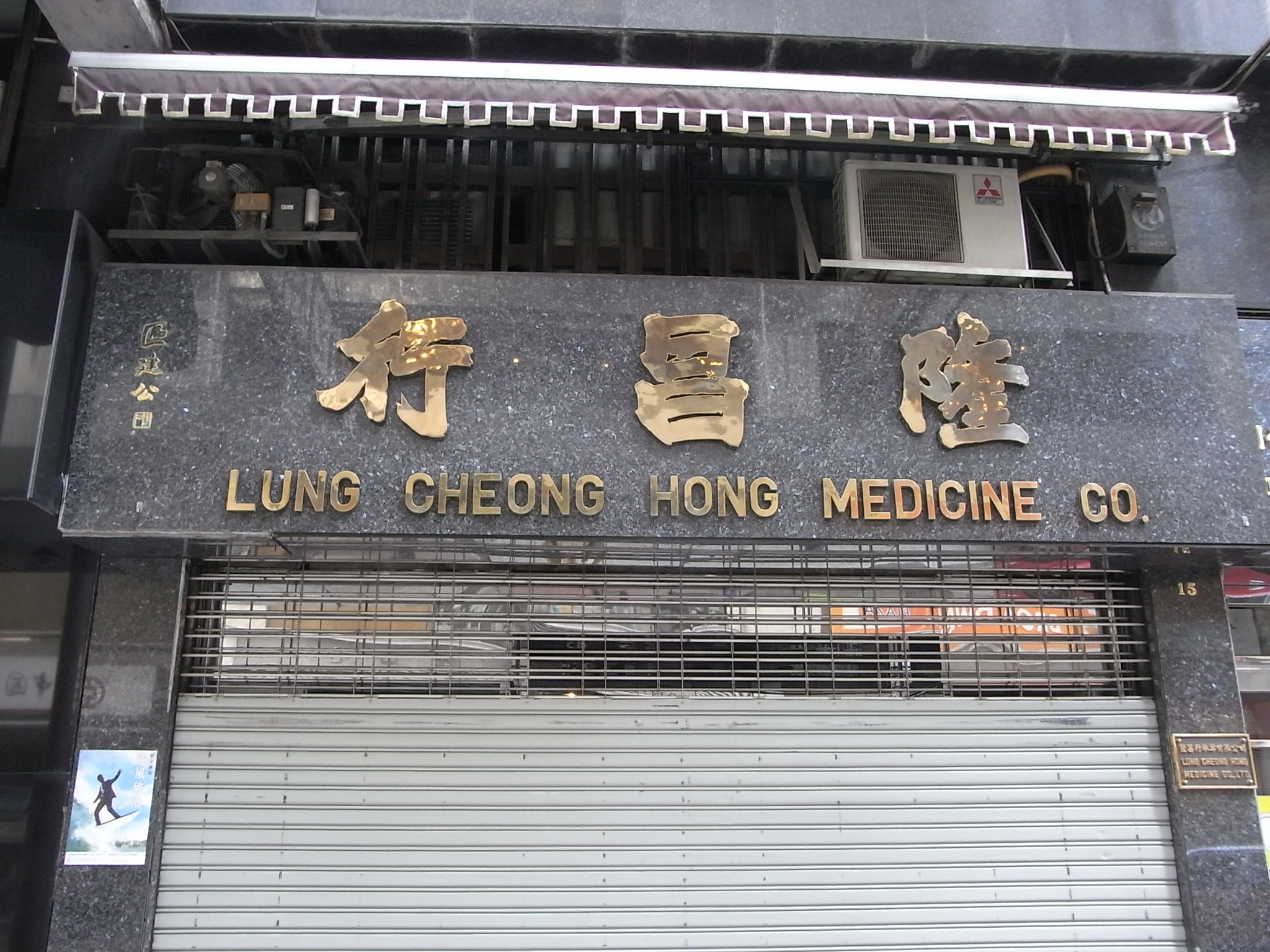 上環 招牌 區建公 [1] 書法墨寶